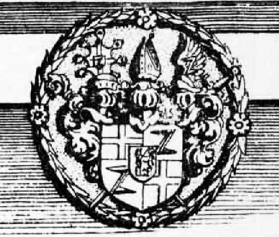 Coats of arms of Philipp Christoph von Sötern on an engraving by Merian 1646.